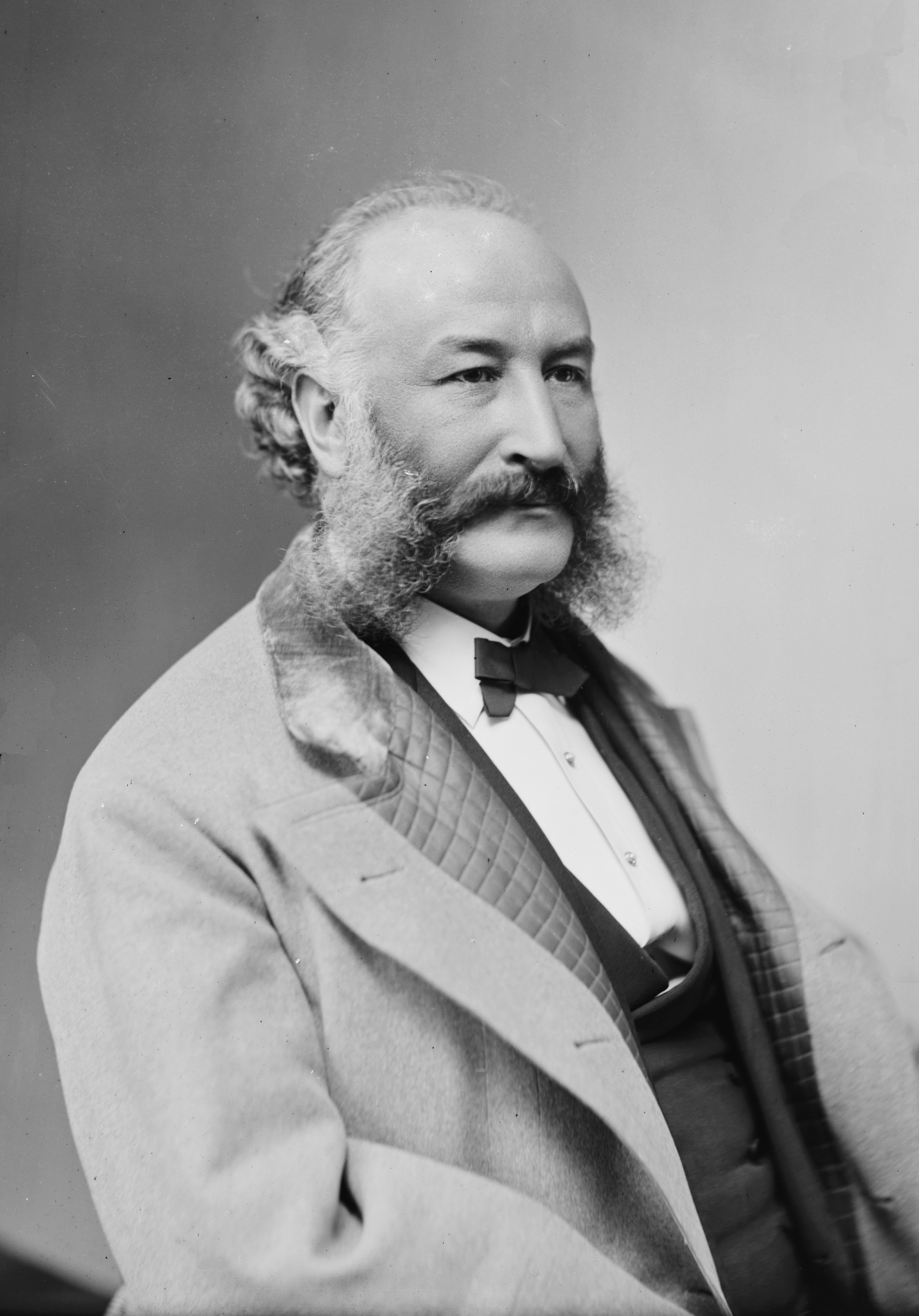 Adolph Heinrich Joseph Sutro (1830–1898) was the 24th mayor of San Francisco, California, serving in that office from 1894 until 1896.